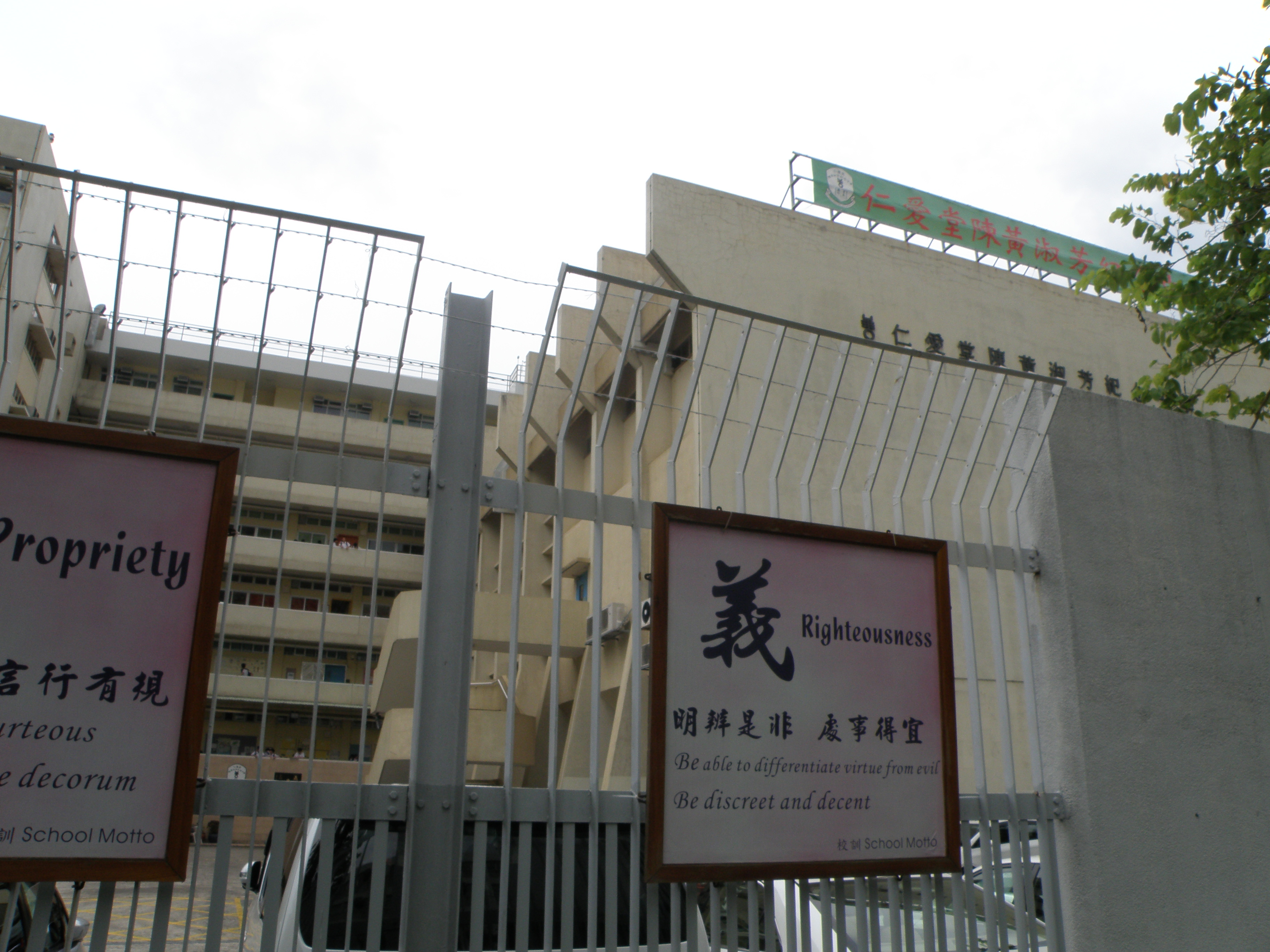 Yan Oi Tong Chan Wong Suk Fong Memorial Secondary School in Tuen Mun, Hong Kong.